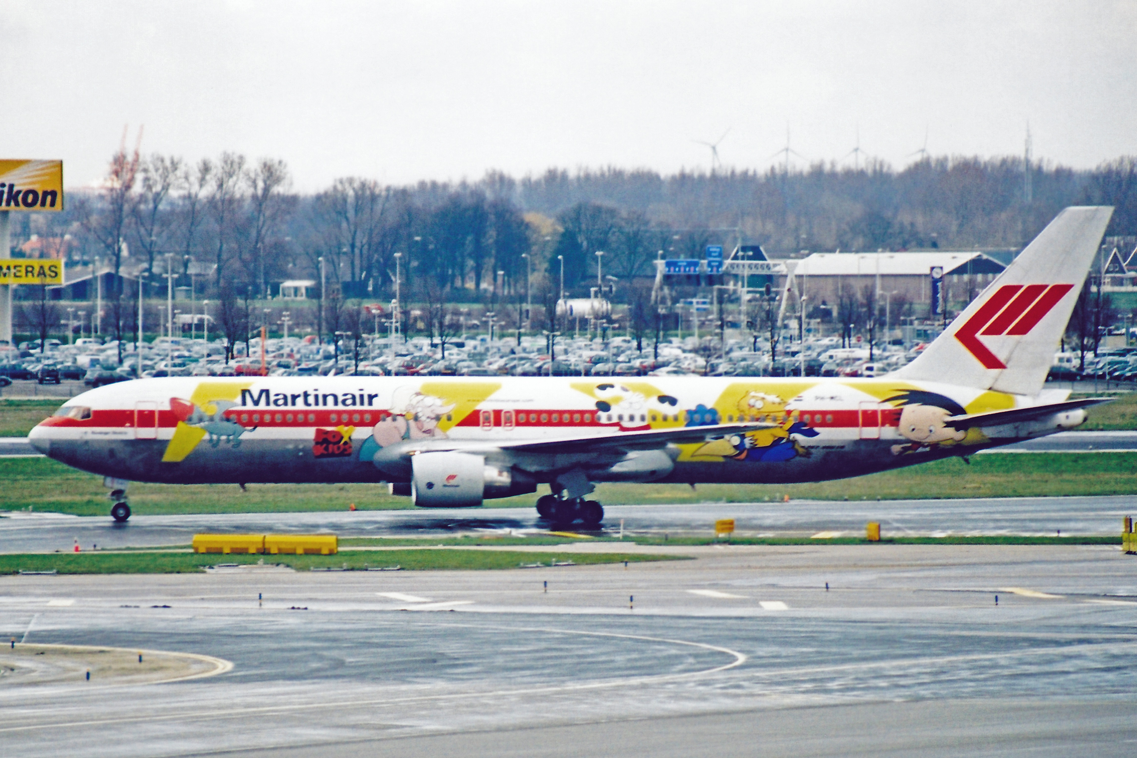 'Fox Kids' special c/scheme. Sadly not a particularly clear shot but the only one I have in this scheme.